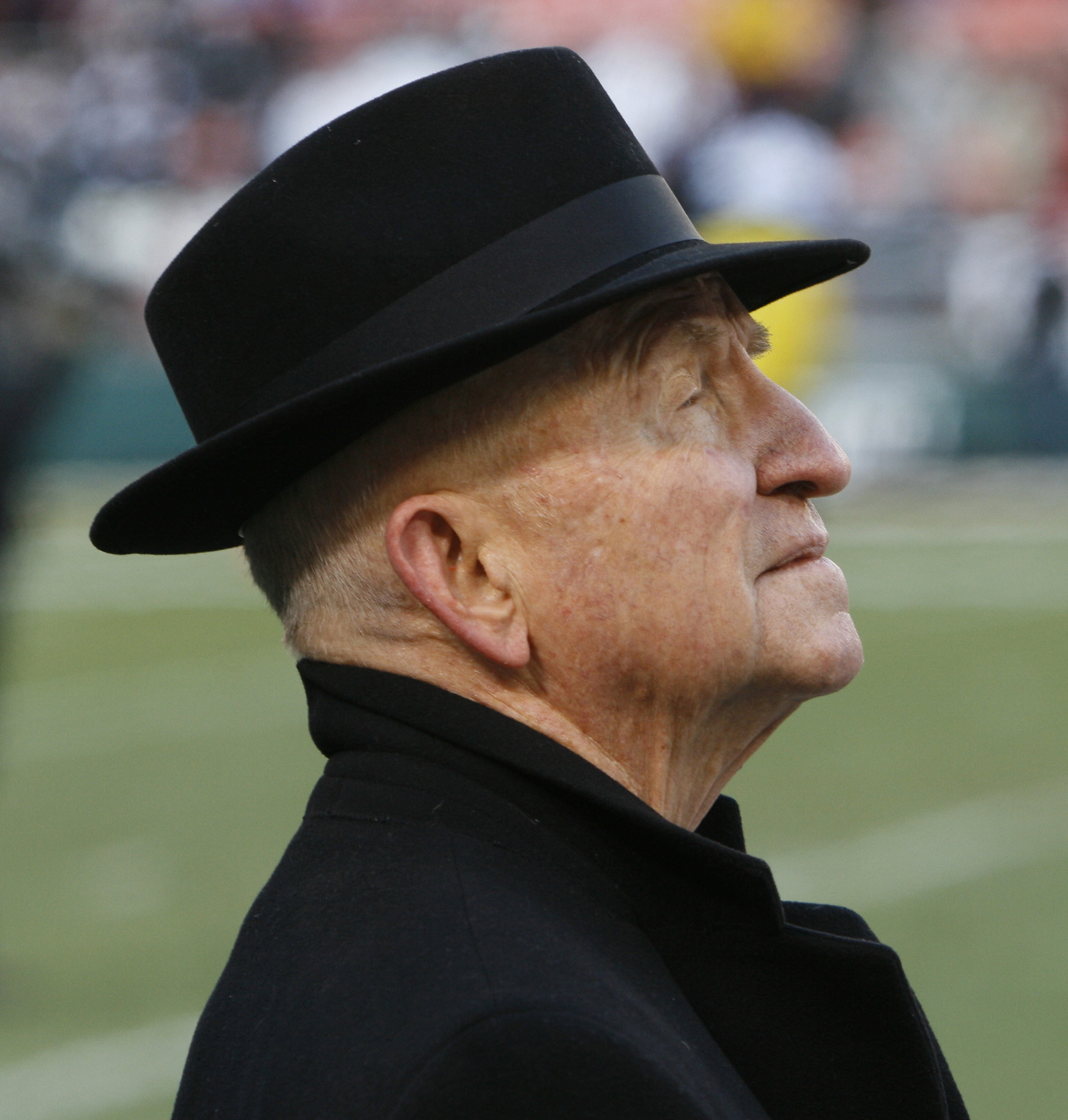 Billionaire and former U.S. presidential candidate, Ross Perot, attending the 2009 EagleBank Bowl, a college football bowl game between the Temple Owls and UCLA Bruins, played at Robert F. Kennedy Memorial Stadium in Washington, D.C., on December 29, 2009.